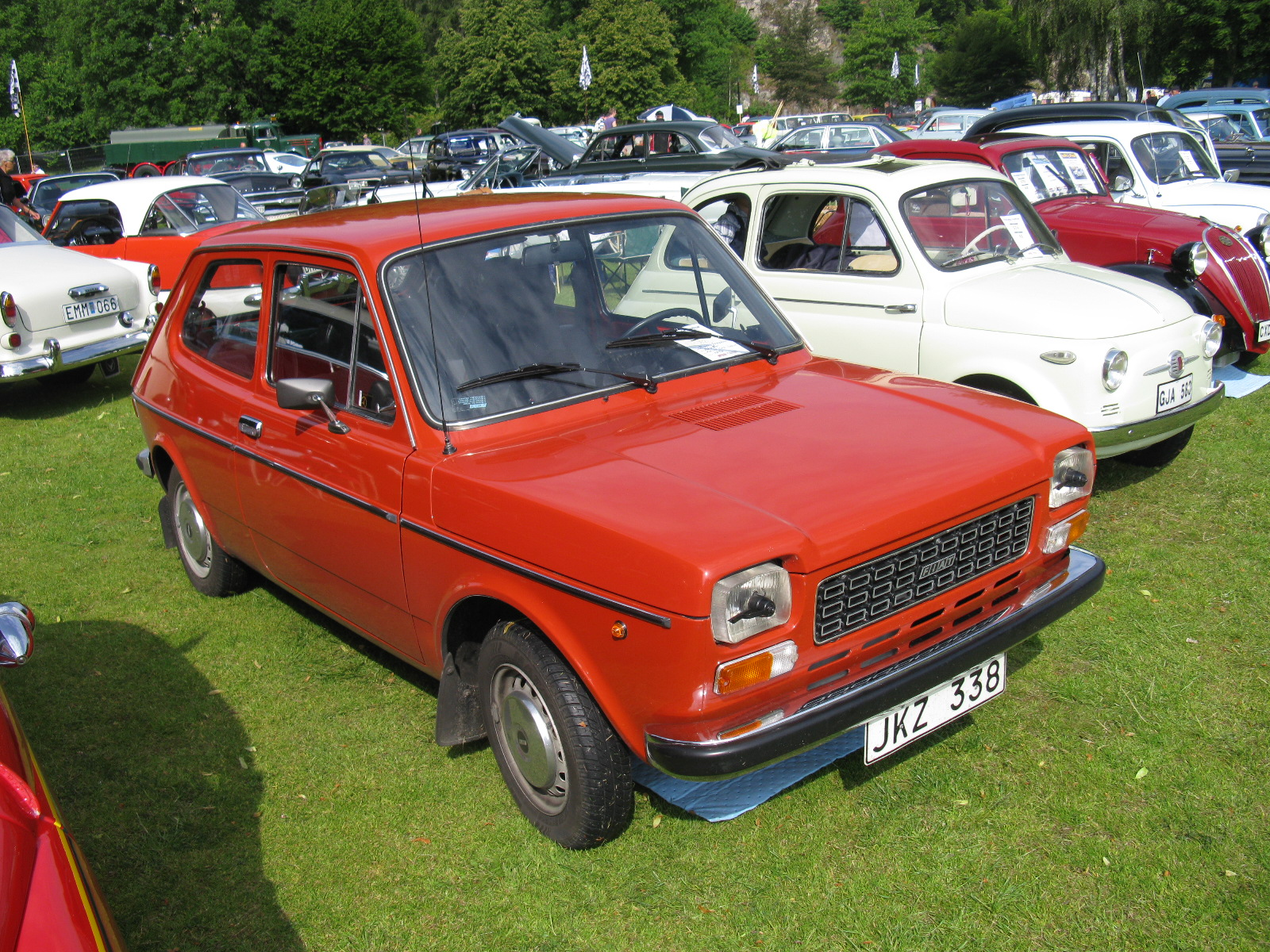 Fiat 127